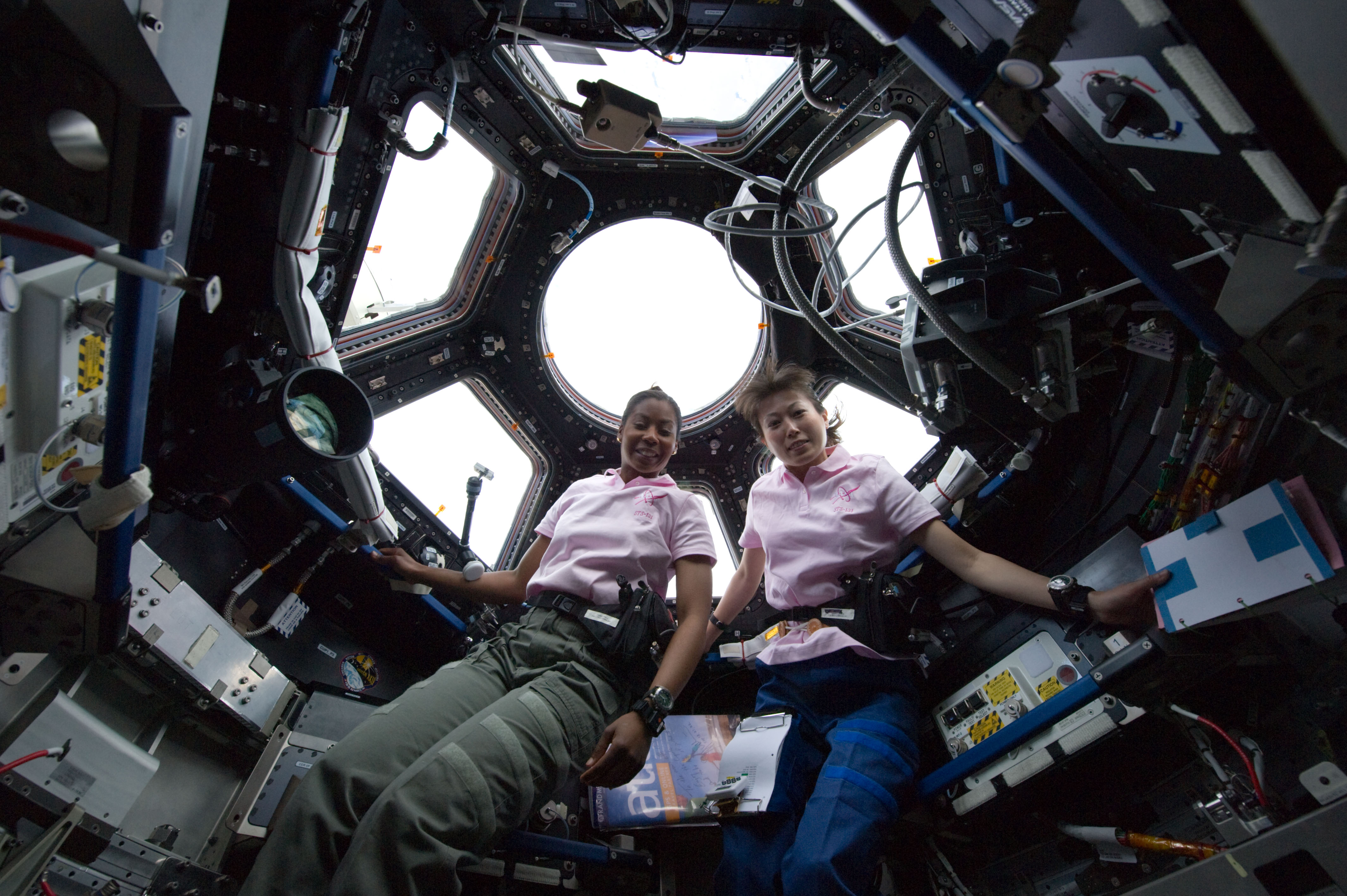 NASA Astronaut Stephanie Wilson and JAXA astronaut Naoko Yamazaki pose for a photo in the cupola. Note the exposure to the Earth appearing white below